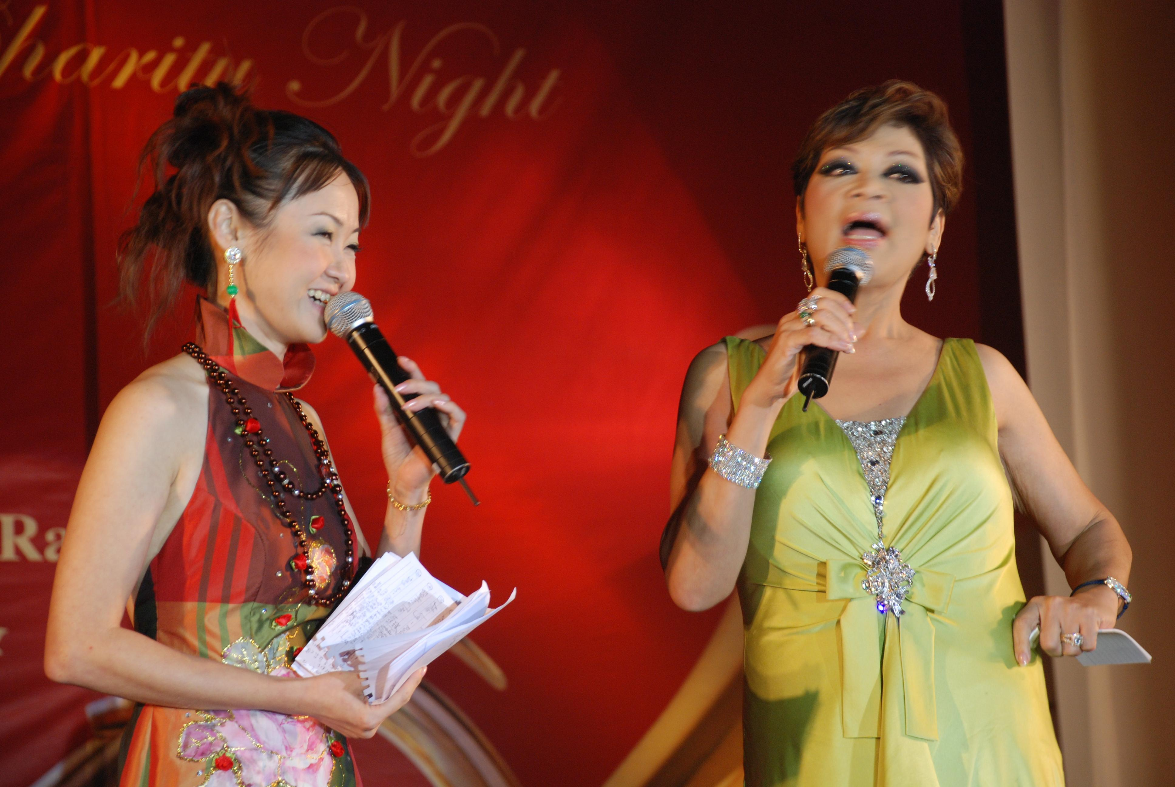 Kuek Ai Fong (闕爱芳, 1975–2008) and another woman